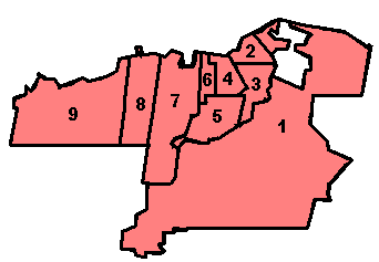 Summary: Approximate map of Ottawa's 9 wards from 1952 to 1956.